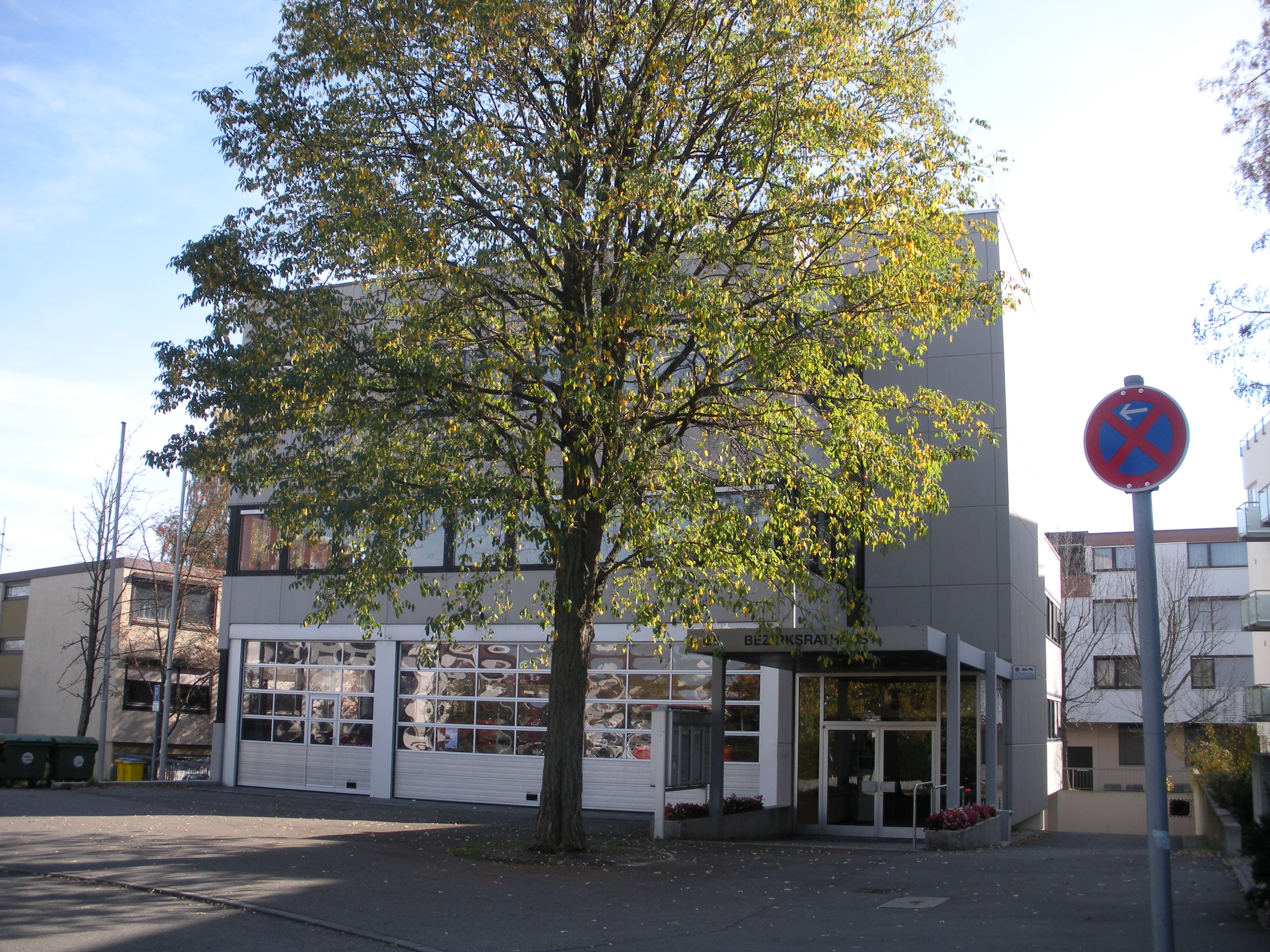 Town Hall in Stuttgart-Sillenbuch